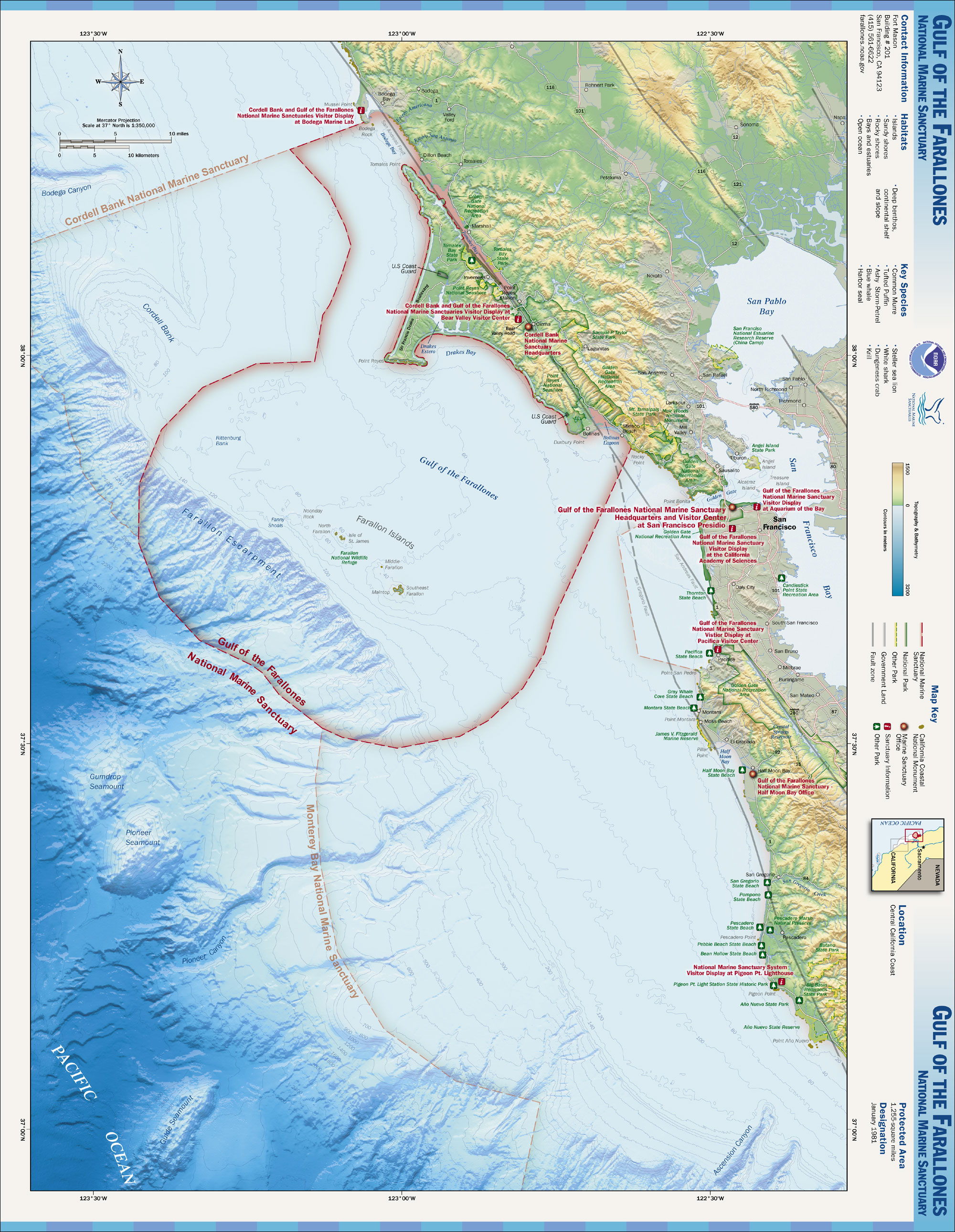 Map of the Gulf of the Farallones National Marine Sanctuary — Northern California. Off the Marin County and San Francisco coasts and including the Farallon Islands, west of San Francisco Bay.